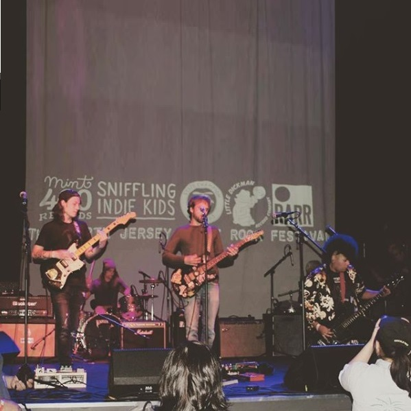 Guilty Giraffe performing at the North Jersey Indie Rock Fest, 8 October 2018.